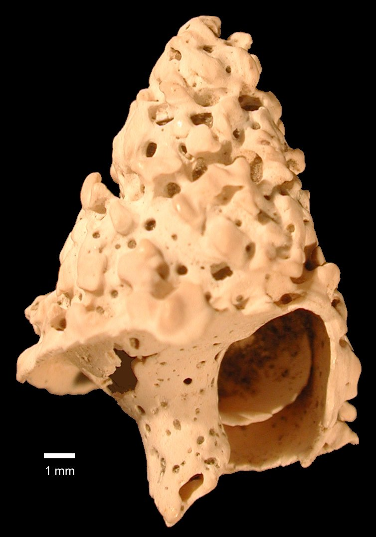 Holes of Boring sponge Cliona celata in fossil (Eemian) shell of Nassarius reticulatus